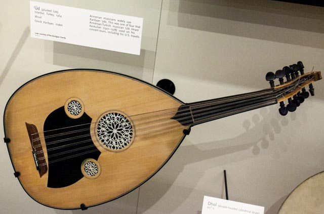 Ûd, Turkey (1964) - MIM PHX Ûd (plucked lute) ...,? Turkey, 1964 Wood O... F...,? maker ... ... We read about the Musical Instrument Museum (MIM) on Trip Advisor - it was the top rated attraction in Phoenix - and now we can see why! The museum is dedicated to musical instruments from around the world - the collection is fascinating, the exhibits are great and the hands-on displays were fun. We spent almost 5 hours here and still felt rushed - this place is definitely worth a detour. I know nothing about musical instruments so if you happen to know what a particular instrument is, please feel free to comment on it. I tried to include as many labels as possible. The museum is in Phoenix, AZ - we visited it in March 2014.